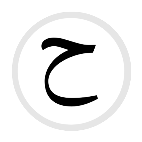 HS Letter (arabic alphabet)